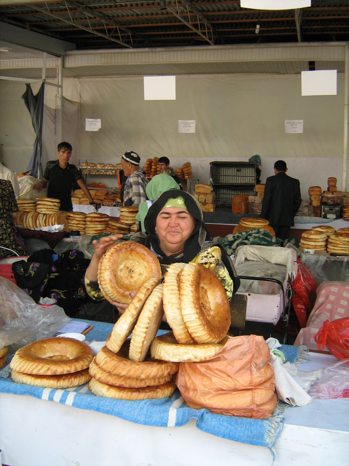 Bread Market in Dushanbe, Tajikistan